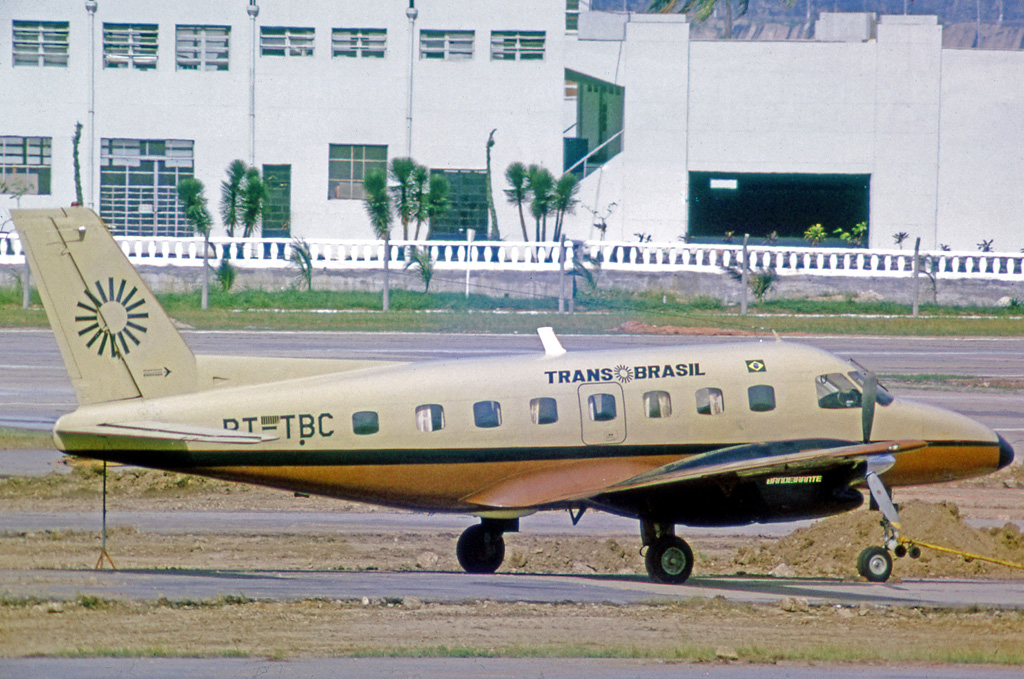 Embraer EMB110 Bandeirante PT-TBC of TransBrasil at Rio Santos Dumont in 1975